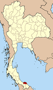 Map of Thailand highlighting Pattani province